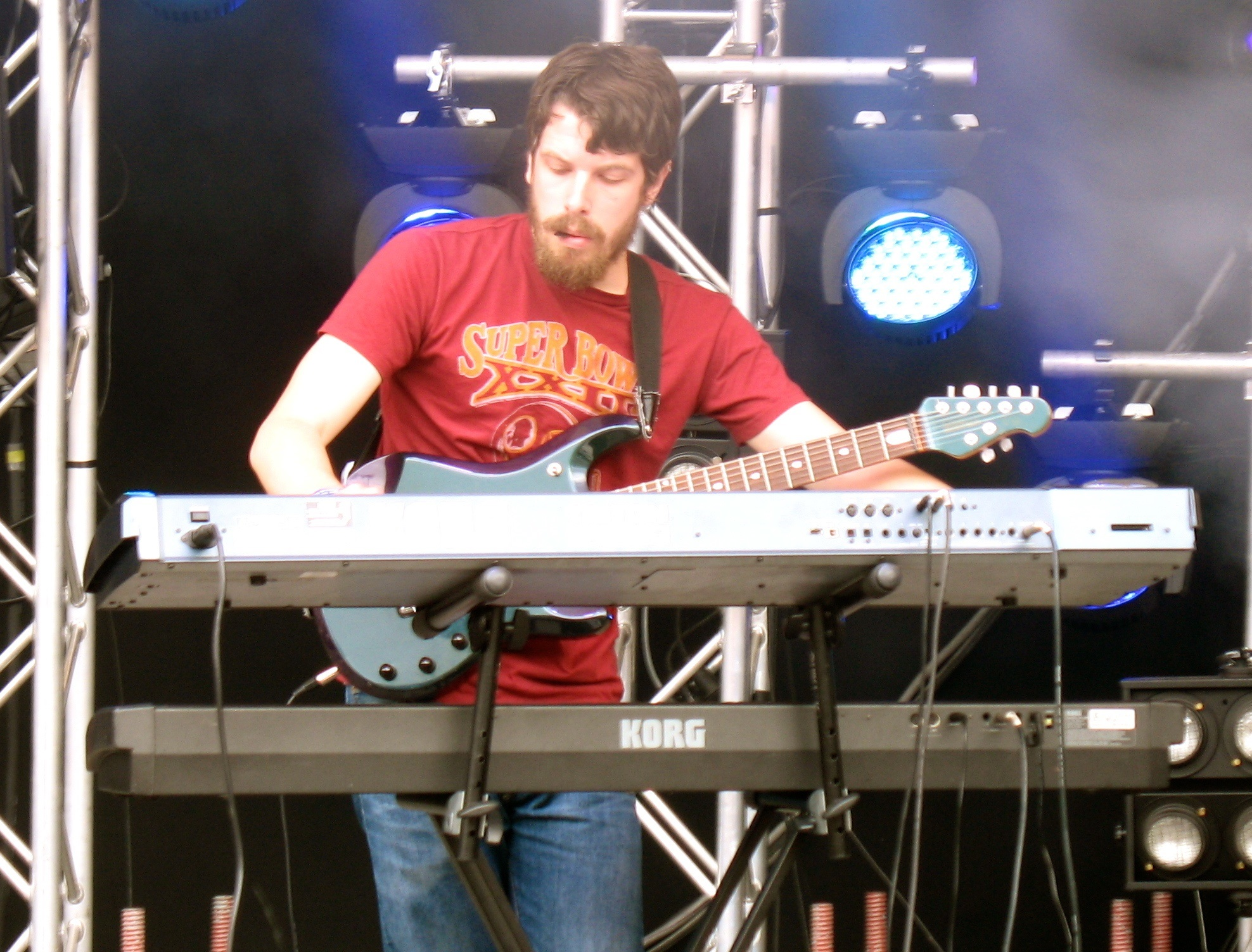 Richard Henshall performing live with Haken at the 2011 Lorelei. Some portions of the original image were cut from this version, so that the musician is highlighted.